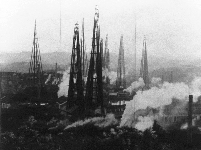 Taken during a visit to the Zigong Salt Museum - this is a photo of an undated photo on exhibition. (Art Yang - 2004)